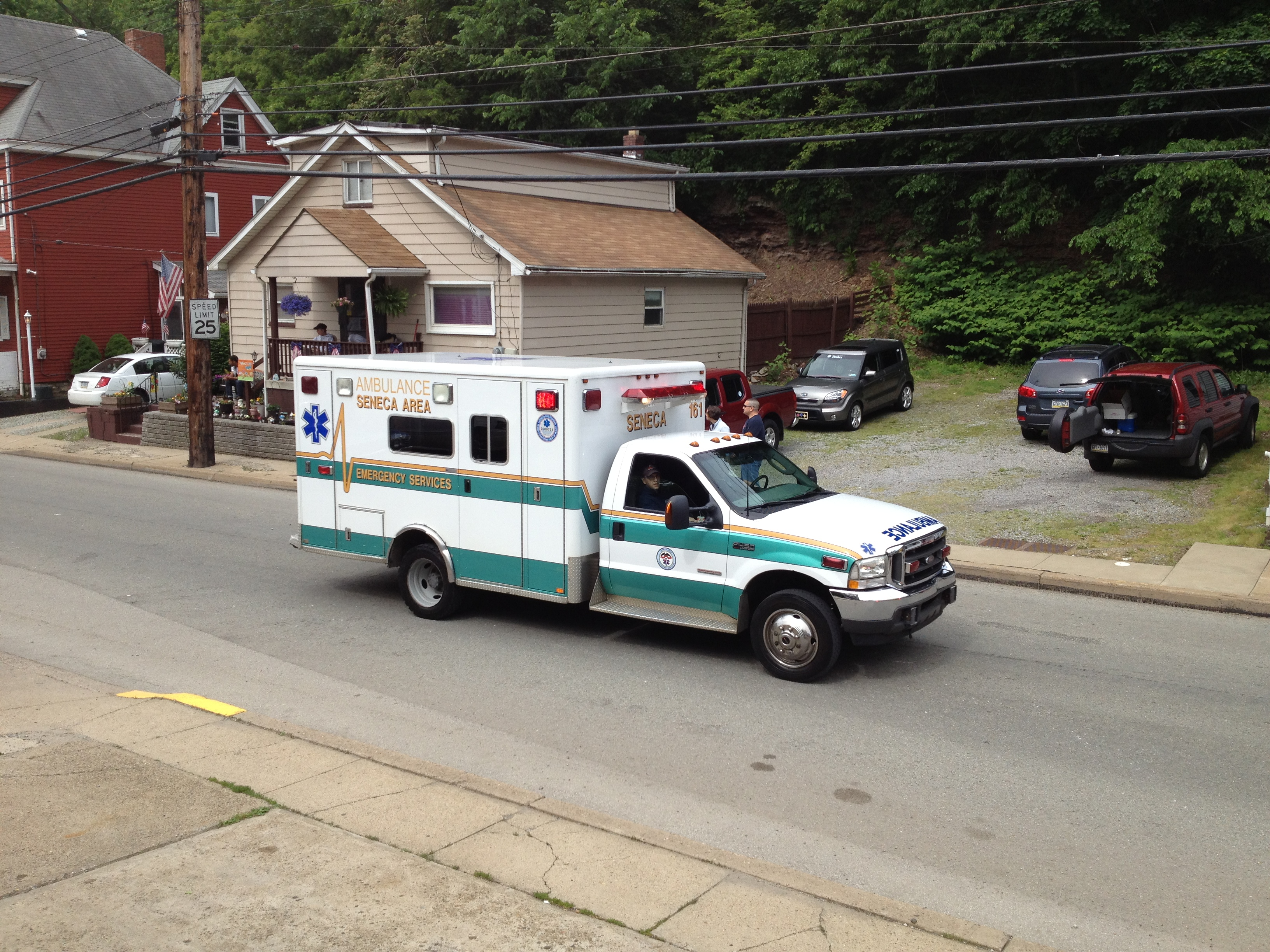 Seneca EMS Ambulance.